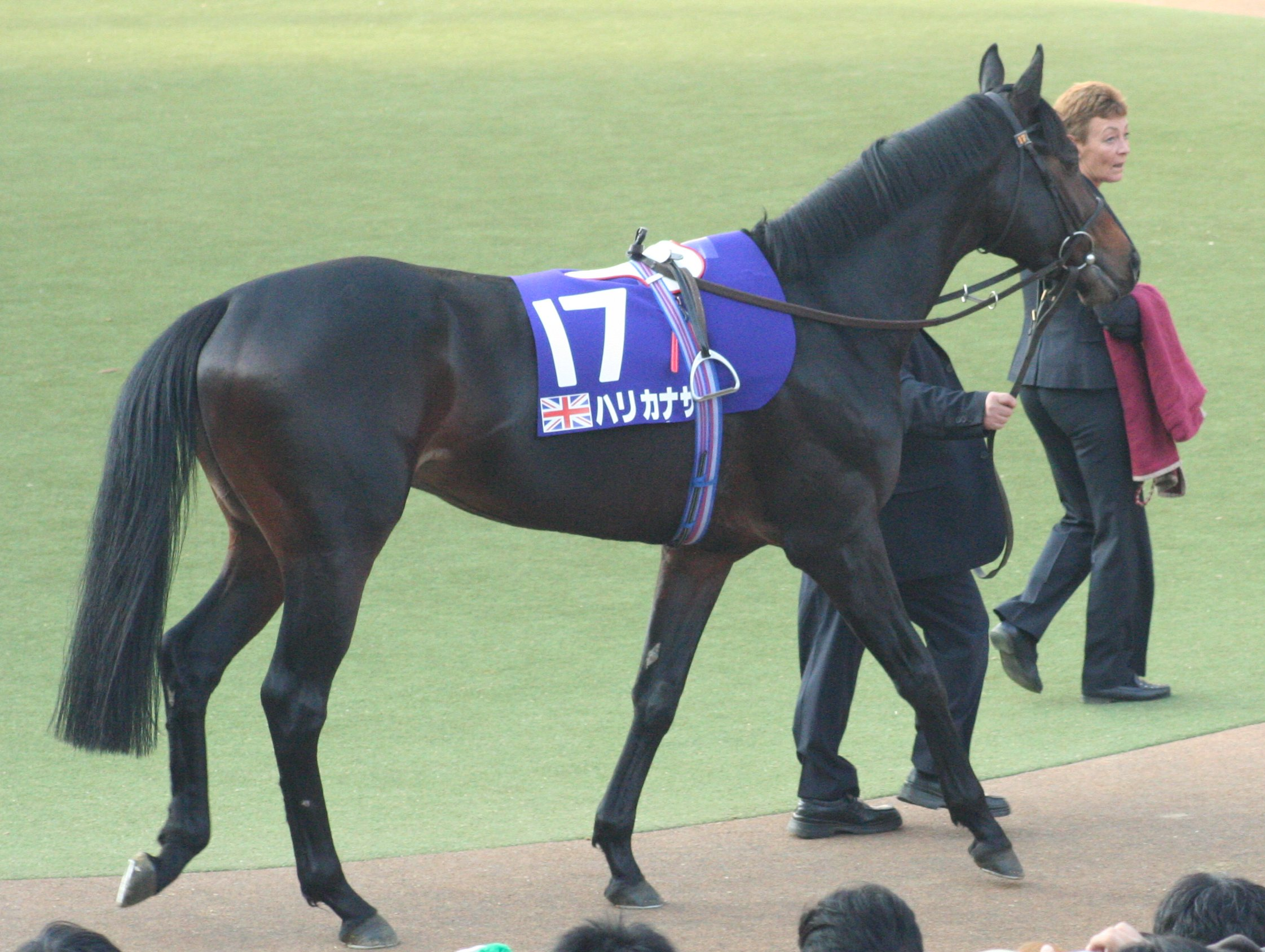 Halicarnassus (IRE)